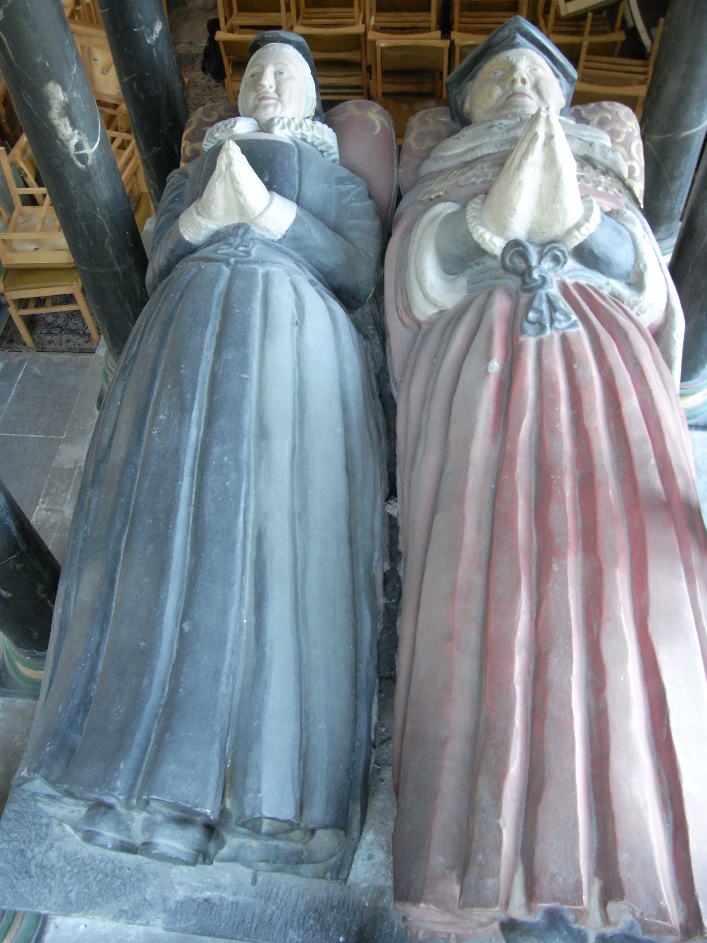 Effigies in Wellington Church, Somerset, of Sir John Popham (1531-1607), Lord Chief Justice of England, and his wife